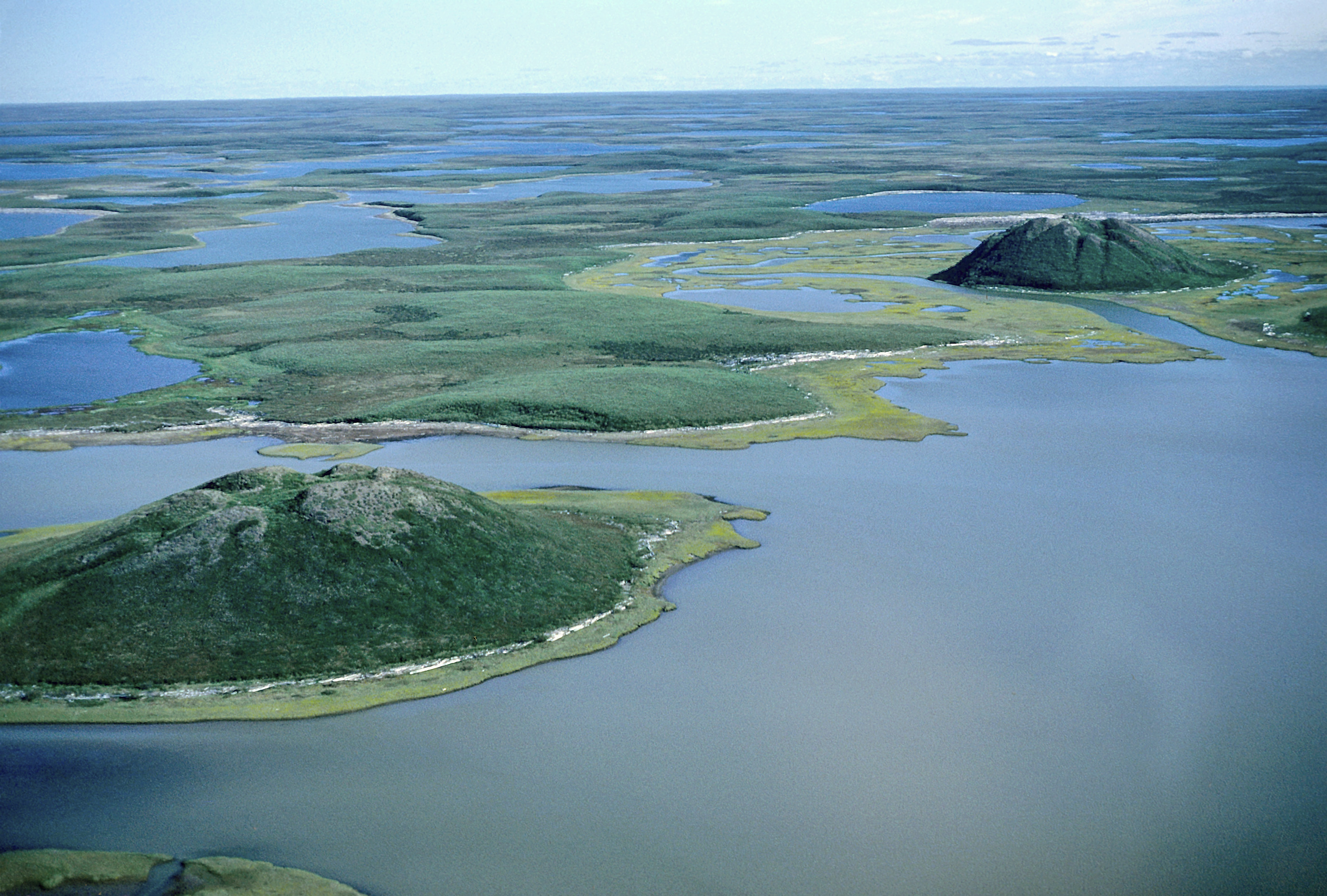 The Mackenzie Delta (background) with 2 pingos near the shore of the Arctic Ocean. Driftwood (white) along the shoreline is found very frequently. The formerly drained lakes can easily be outlined. Photo: Lorenz King, August 8,1987